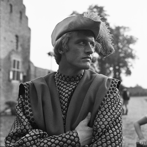 Dutch 1969 TV series Floris